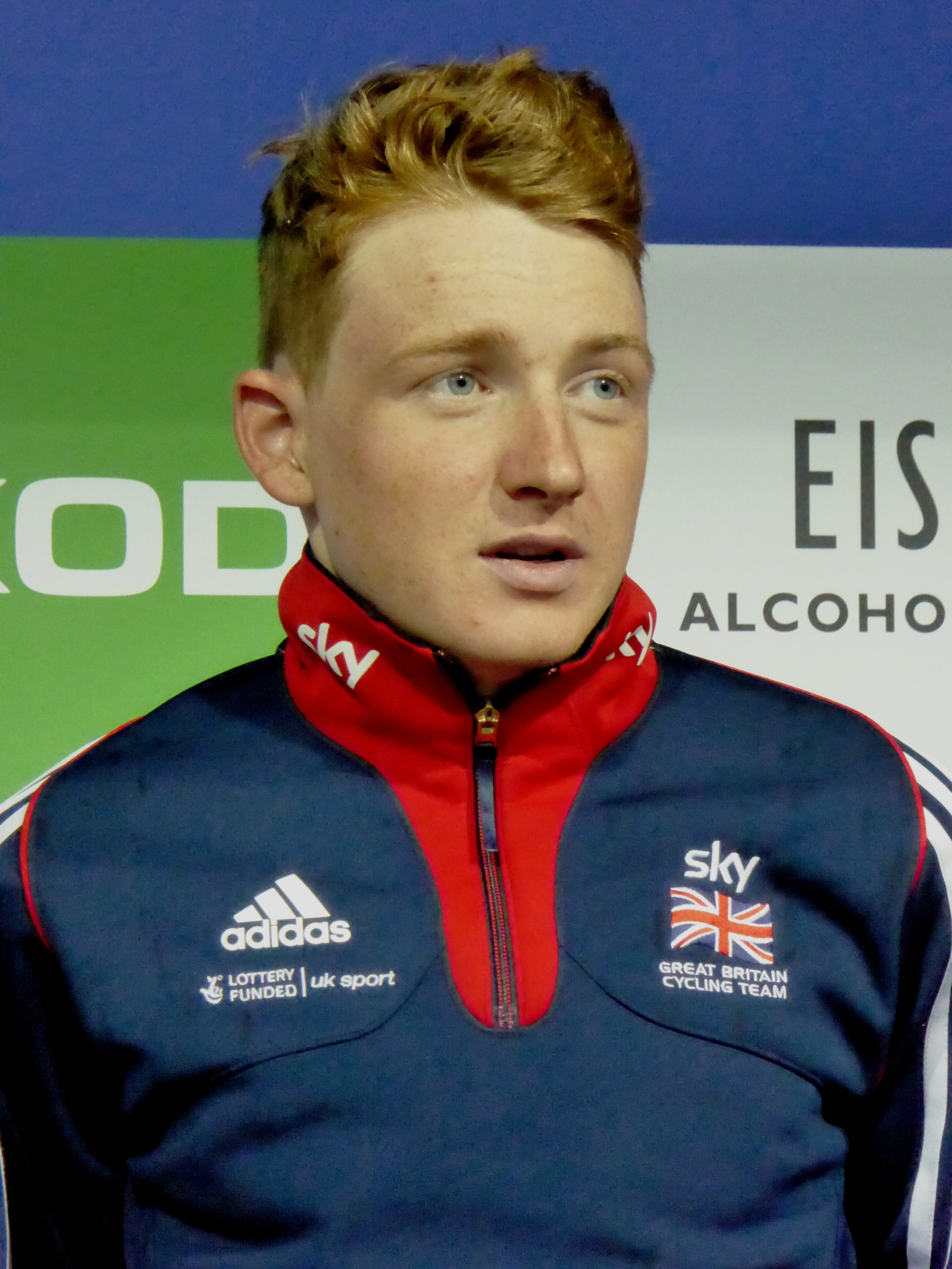 Tao Geoghegan Hart (Great Britain national team), pictured at the 2016 Tour of Britain team presentation in Glasgow on 3 September 2016.